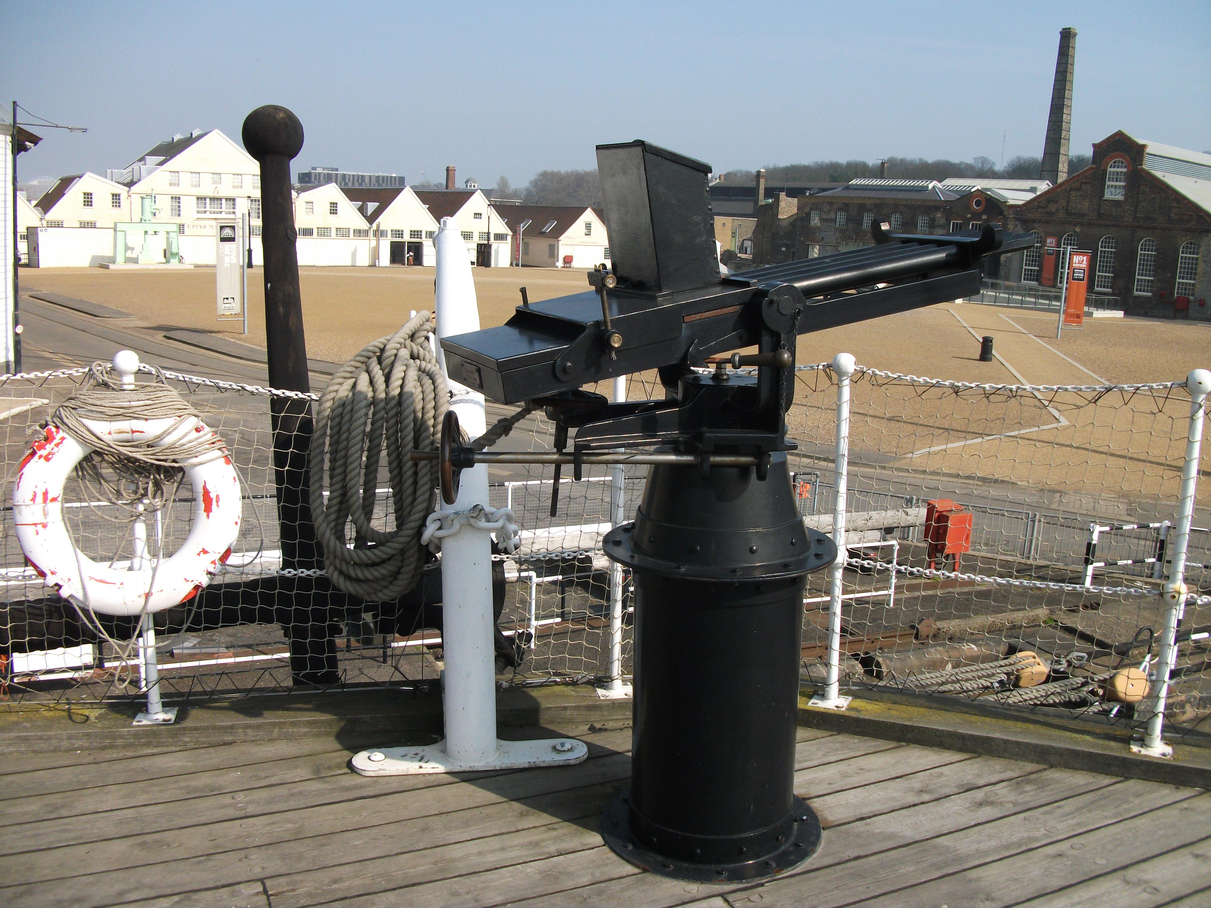 Four-barrelled Nordenfelt 1-inch volley gun mounted on the deck of Doterel class Sloop, HMS Gannet.